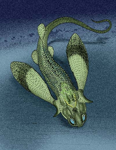 The Early Devonian placoderm, Stensioella heintzi.